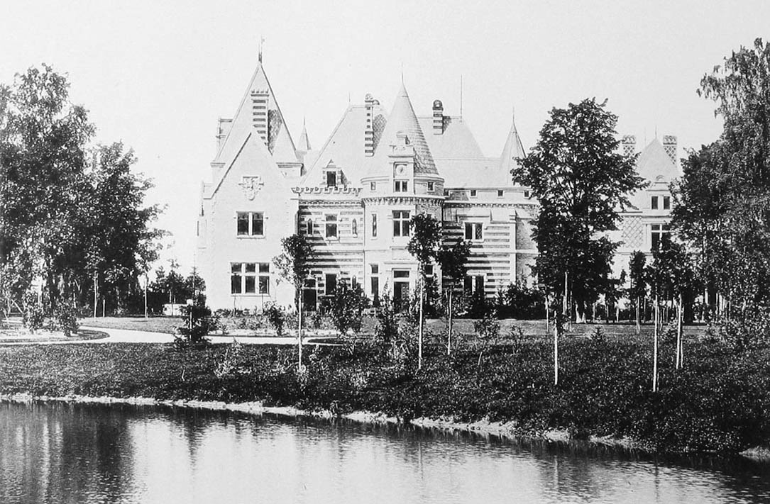 Verigina Estate in Podushkino, by Pyotr Boytsov